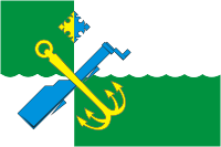 Podporozhsky rayon (Leningrad oblast), flag